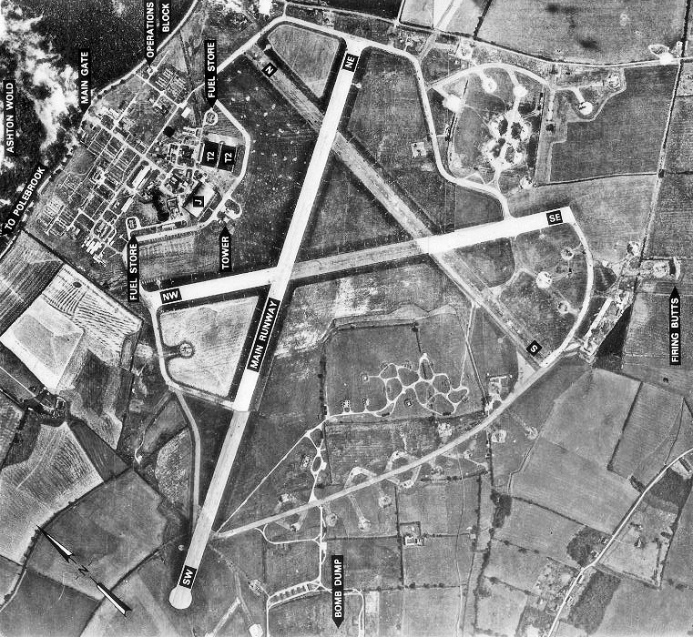 Aerial Photograph of RAF Polebrook - August, 1948